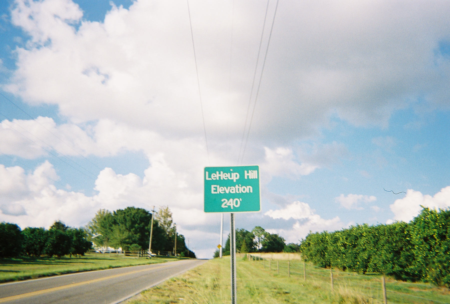 Northbound sign on Pasco County Road 41(Fort King Road) near LeHeup Hill between Zephyrhills and Dade City in Pasco County, Florida. The hill's elevation is said to be at 240 feet.